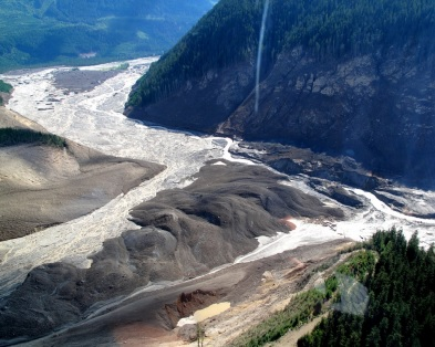 The Meager Creek barrier after a dam outburst flood caused by a landslide from Mount Meager in 2010.